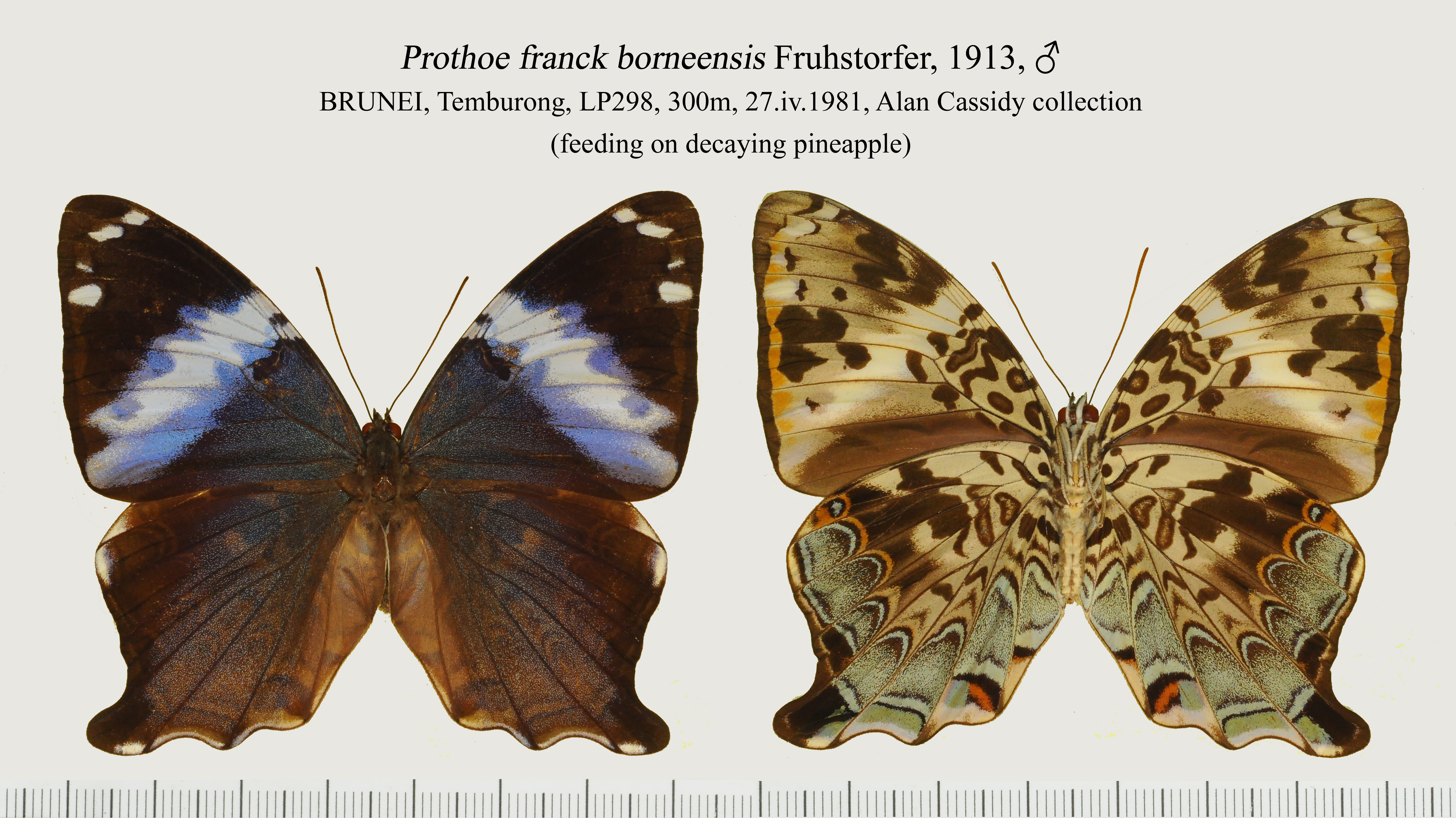 Prothoe franck borneensis, male, BRUNEI, Alan Cassidy photo.